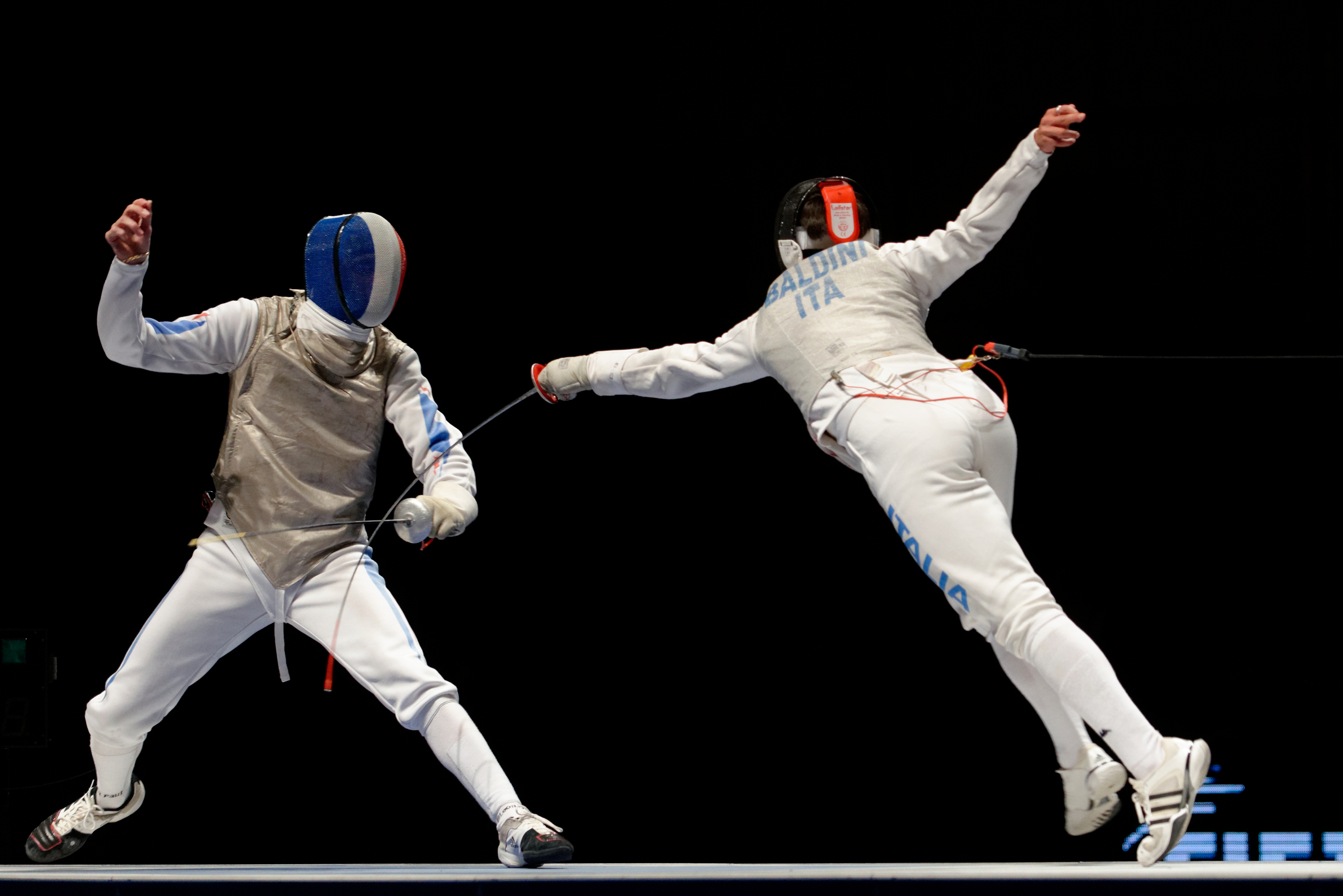 France's Jérémy Cadot (L) parries a flèche attack from Andrea Baldini of Italy (R) in the final of the Challenge international de Paris 2013, a men's foil World Cup event.